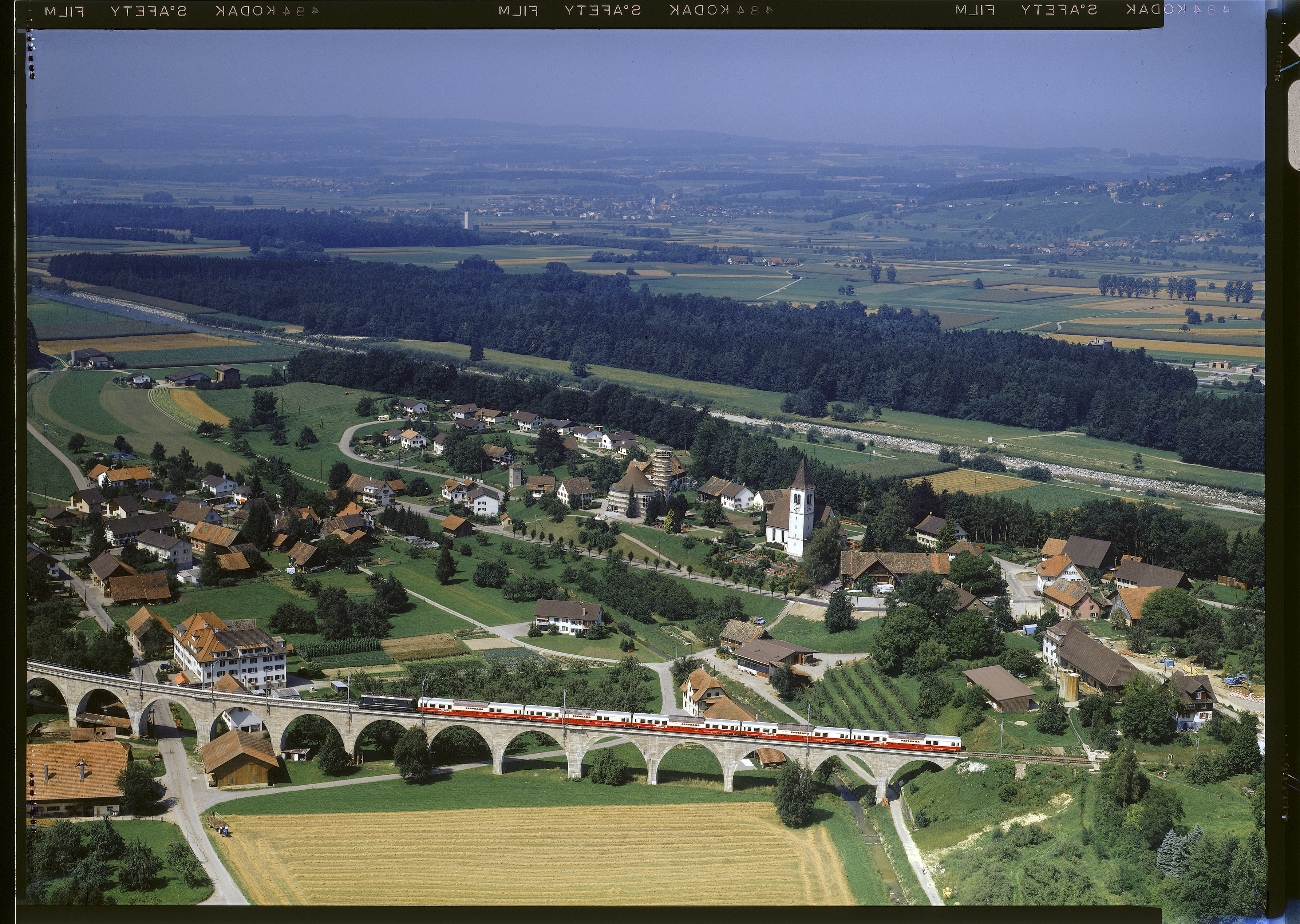 MThB Re 4/4 21 on the Bussnang viaduct ahead of a consist of former DB AD4üm-62 dome cars.